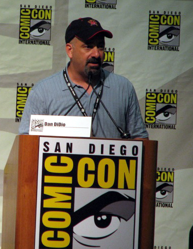 Cropped version of image, Dan DiDio at San Diego Comic Con 2007